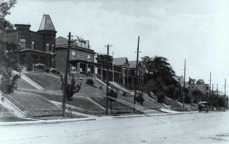 Print, Residences on Cote St. Catherine Road, Outremont, QC, about 1910, Anonymous, Coloured ink on paper mounted on card - Photolithography - 8 x 13 cm